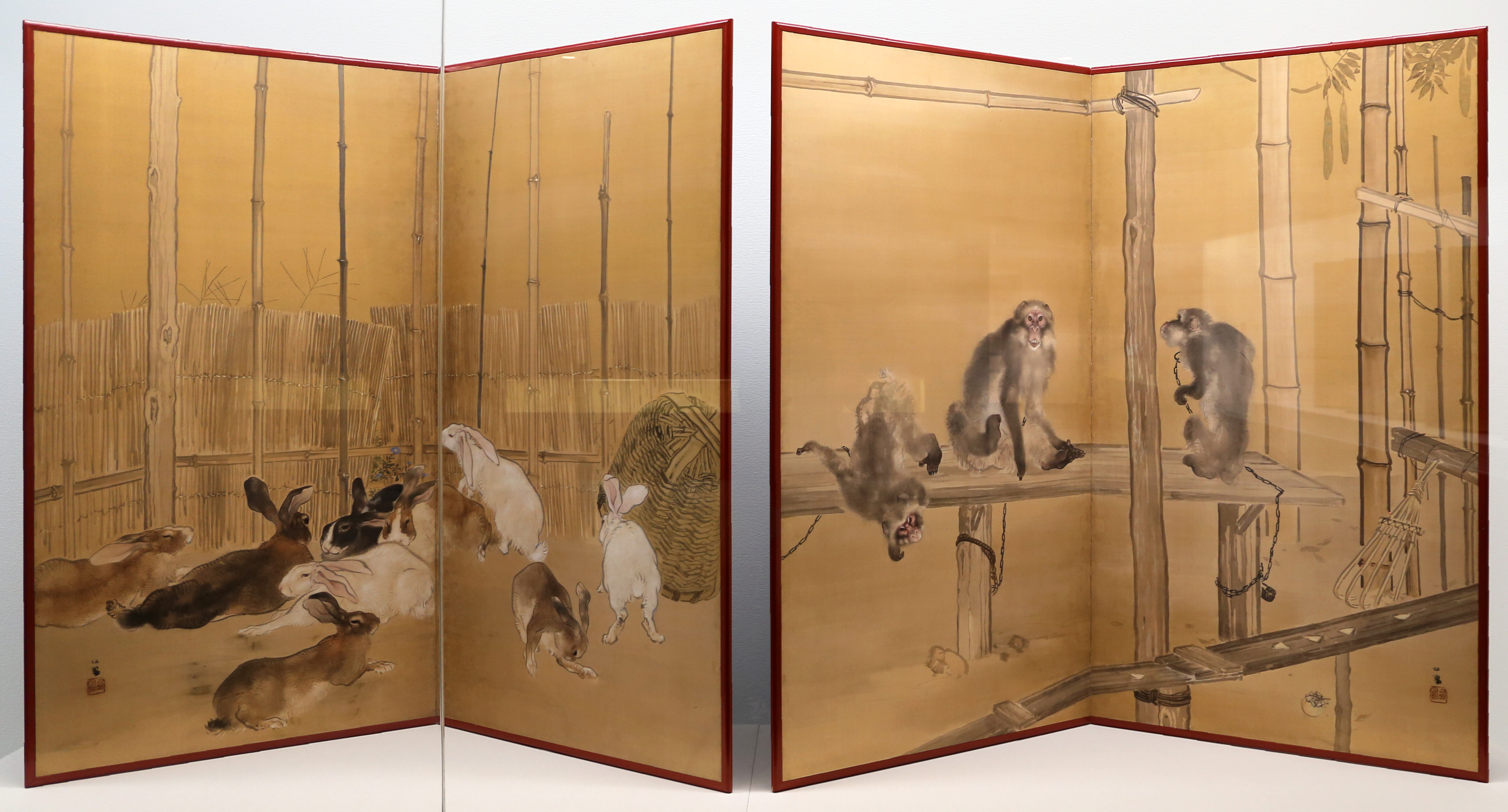 TAKEUCHI, Seiho (1864-1942). Monkeys and Rabbits, 1908. Two panels folding screens, w183.0 x h163.5 cm. The National Museum of Modern Art, Tokyo